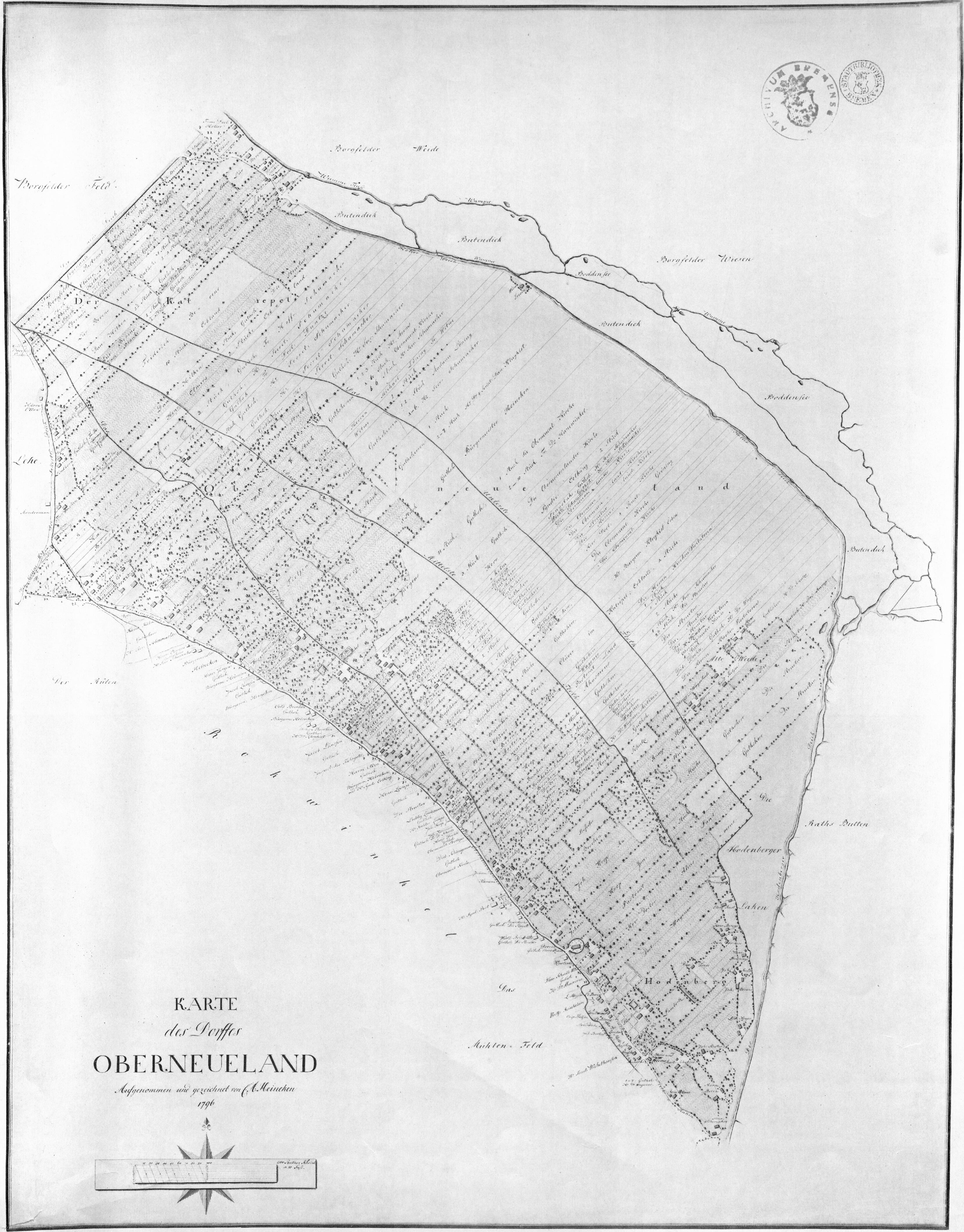 Translation of the original title: "Map of the village of Oberneuland, recorded and drawn by C. A. Heineken in 1796.